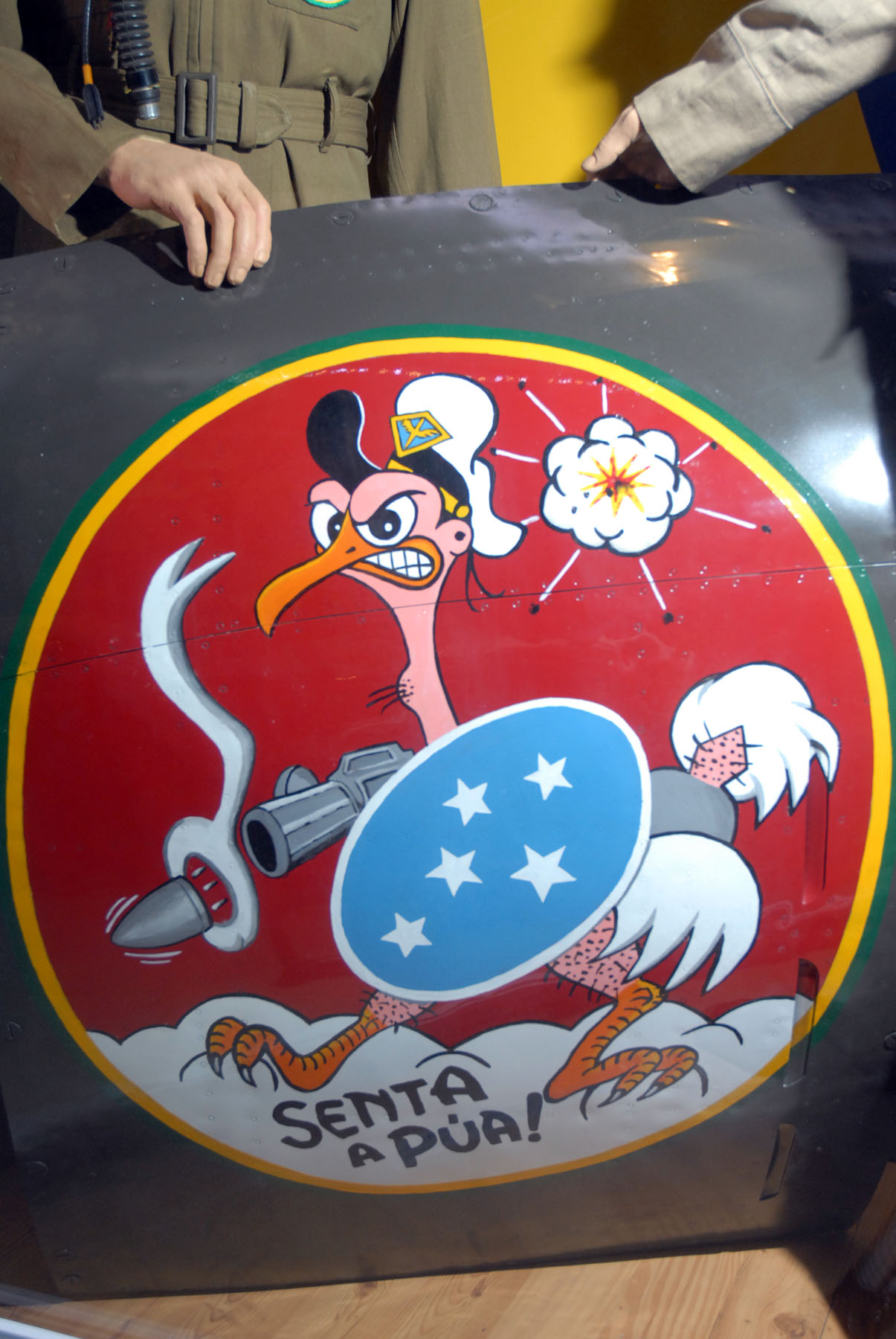 "Senta a Pua!" 1st Fighter Aviation Group emblem. Artifact from the Brazilian FAB aircrews portion of the WWII: Airmen in a World at War exhibit in the Air Power Gallery at the National Museum of the U.S. Air Force.